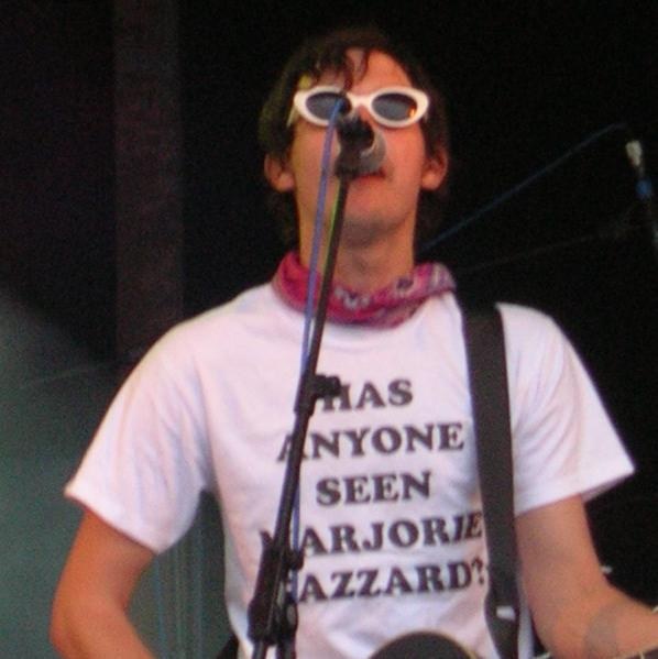 Robin Bennett, frontman of the band Goldrush, on stage at the 2005 Truck Festival - the festival his band created in 1998 - in Steventon.